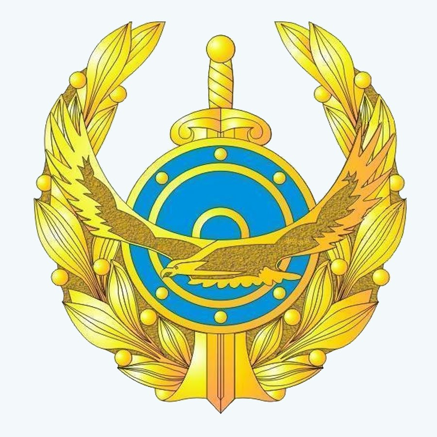 Logo MIA RK